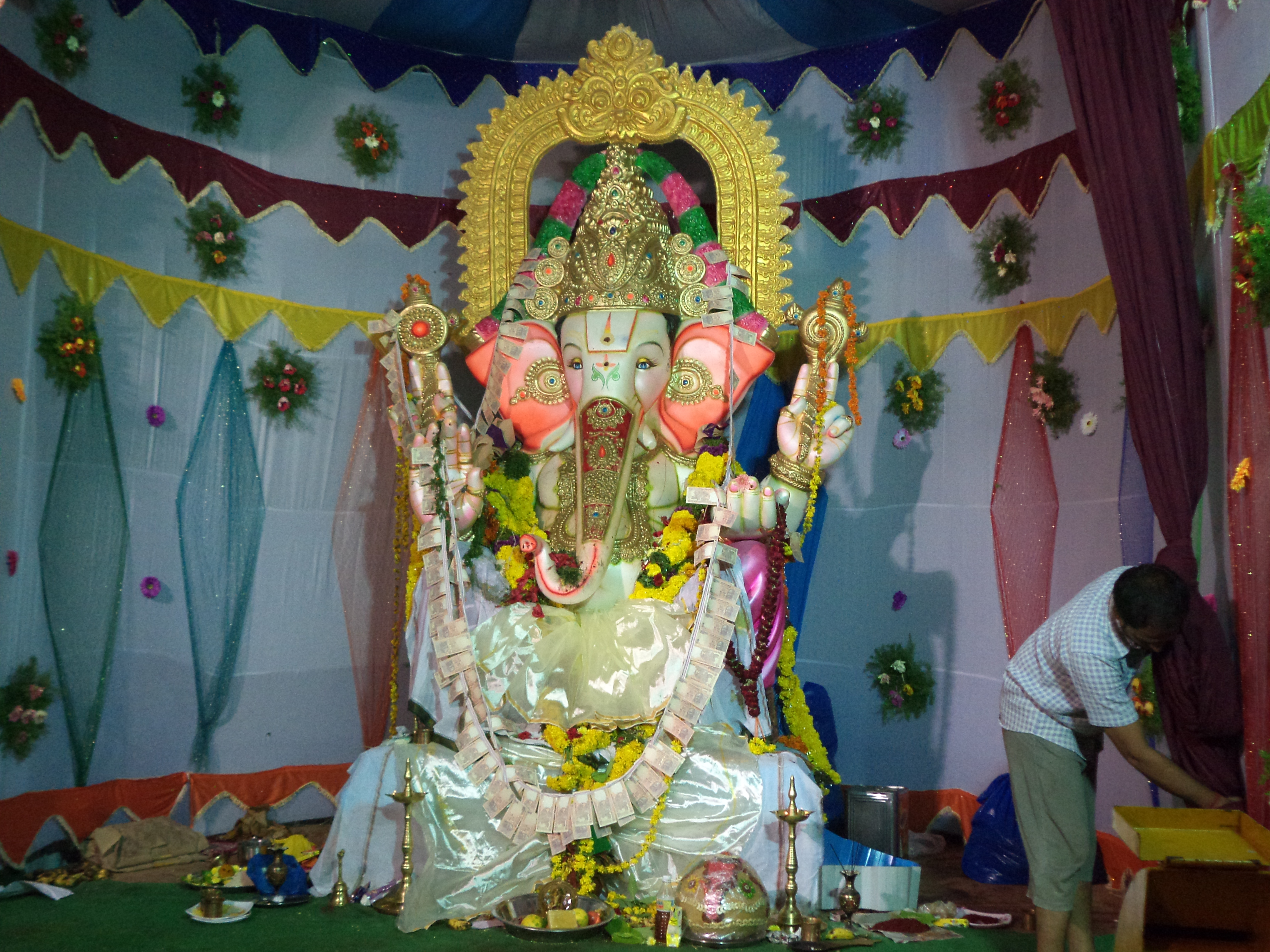 Vighneaswarudu,pedabaavi center, Vijayawada-520007.